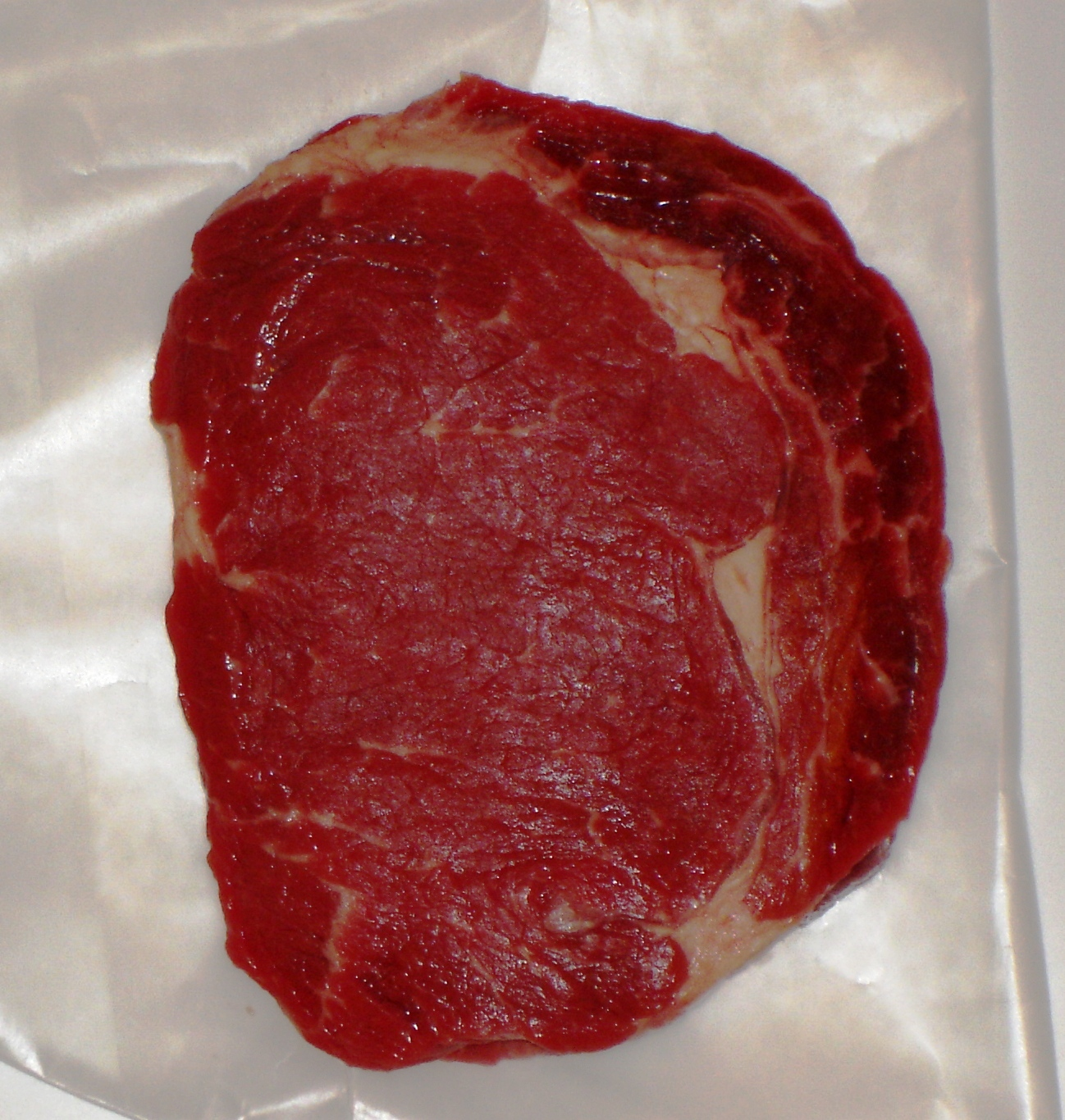 Traditional entrecôte (rib-eye steak)